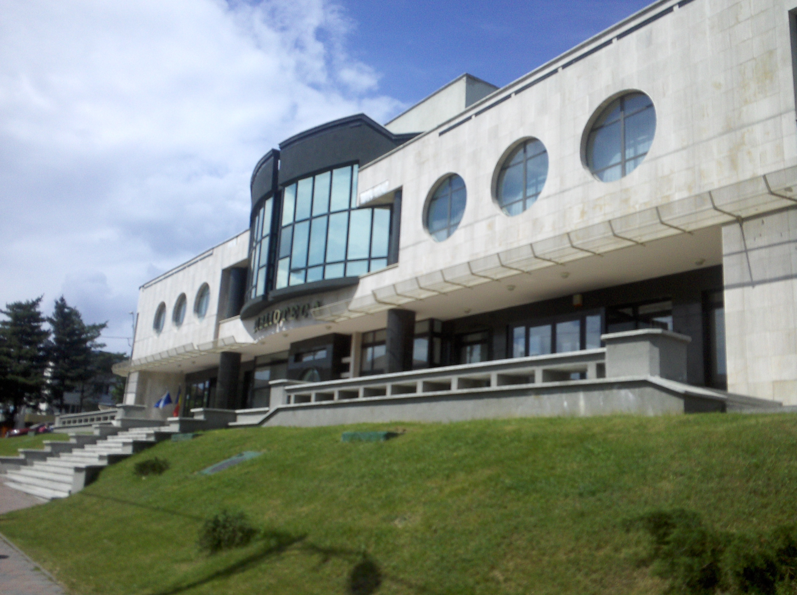 The Library in Oneşti.